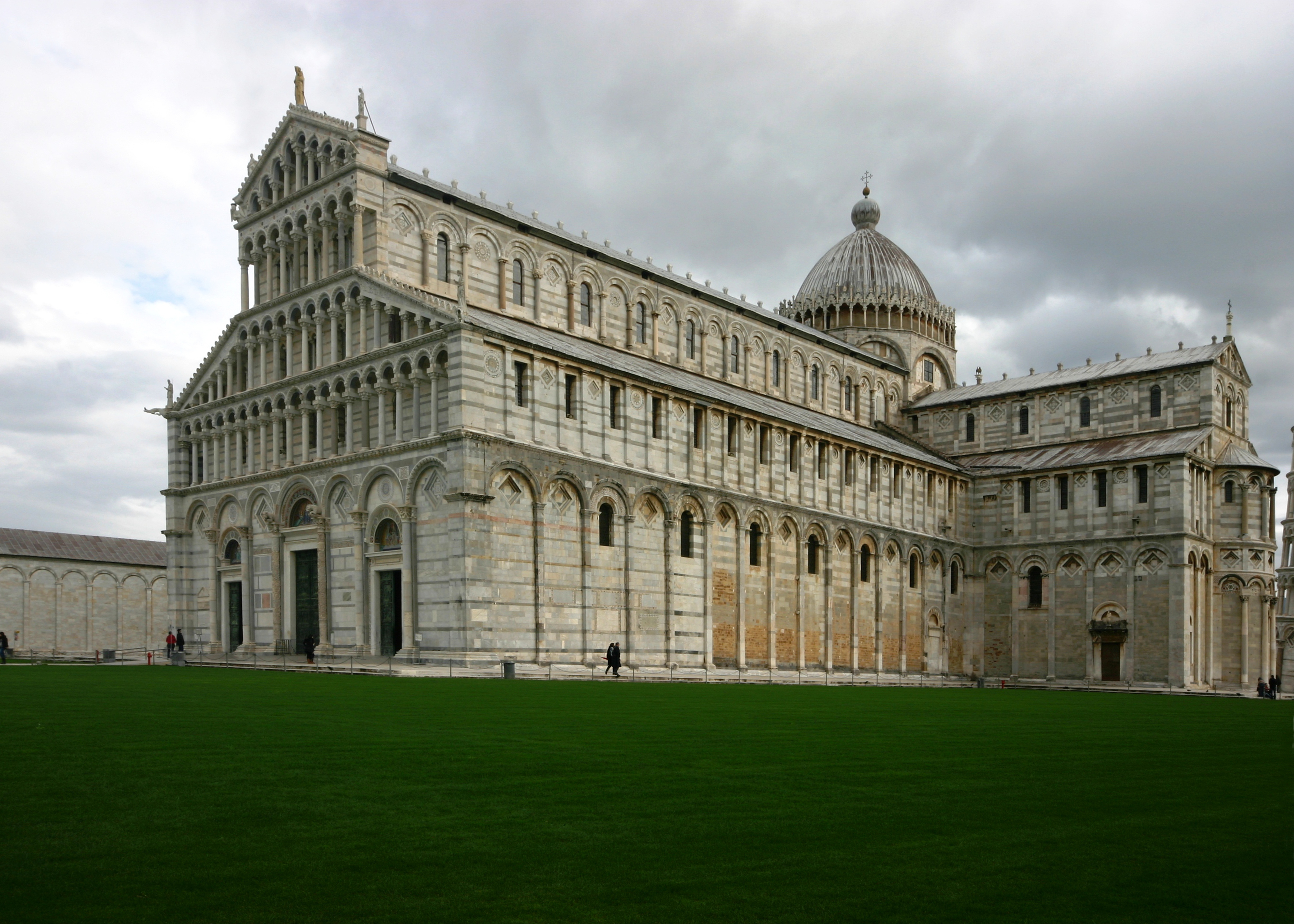 Exterior of the Cathedral (Pisa)